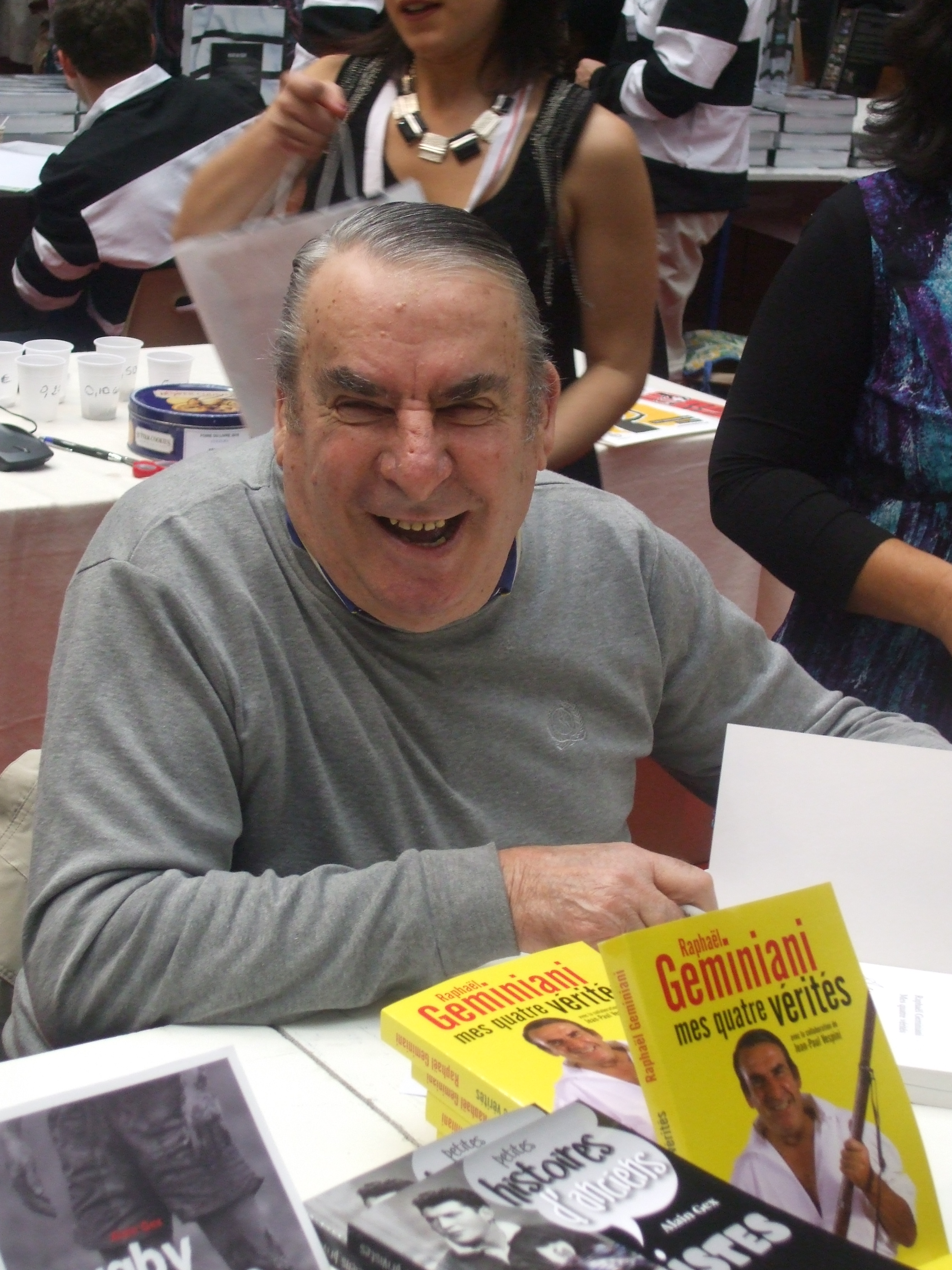 Raphaël Géminiani, french cyclist, Brive la Gaillarde book fair, France, 2010 11 06